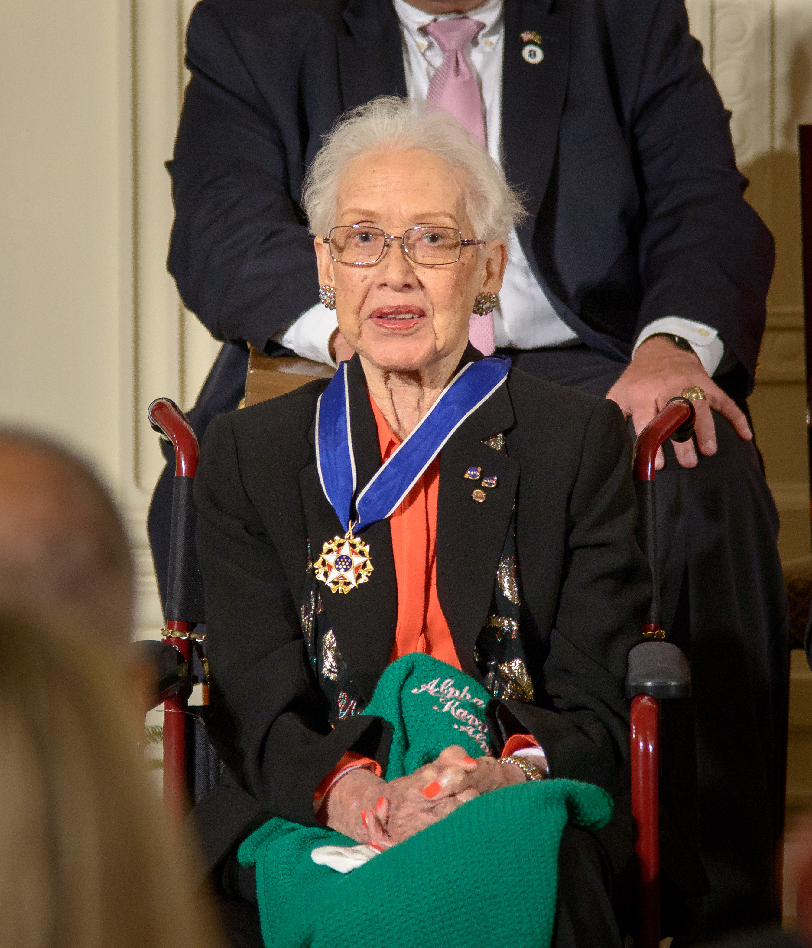 Former NASA mathematician Katherine Johnson is seen after President Barack Obama presented her with the Presidential Medal of Freedom, Tuesday, Nov. 24, 2015, during a ceremony in the East Room of the White House in Washington. Photo Credit: (NASA/Bill Ingalls) Johnson's computations have influenced every major space program from Mercury through the Shuttle program. Johnson was hired as a research mathematician at the Langley Research Center with the National Advisory Committee for Aeronautics (NACA), the agency that preceded NASA, after they opened hiring to African-Americans and women. Johnson exhibited exceptional technical leadership and is known especially for her calculations of the 1961 trajectory for Alan Shepard’s flight (first American in space), the 1962 verification of the first flight calculation made by an electronic computer for John Glenn’s orbit (first American to orbit the earth), and the 1969 Apollo 11 trajectory to the moon. In her later NASA career, Johnson worked on the Space Shuttle program and the Earth Resources Satellite and encouraged students to pursue careers in science and technology fields.